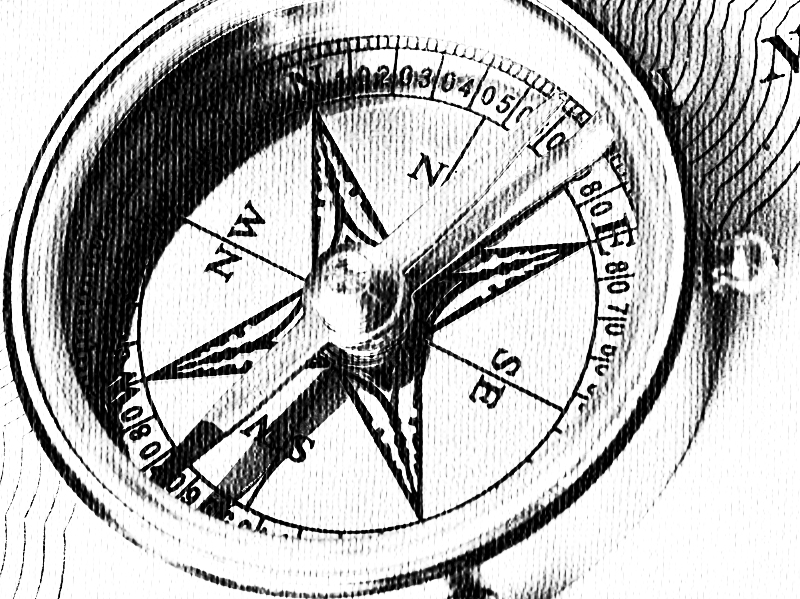 Компас на холсте